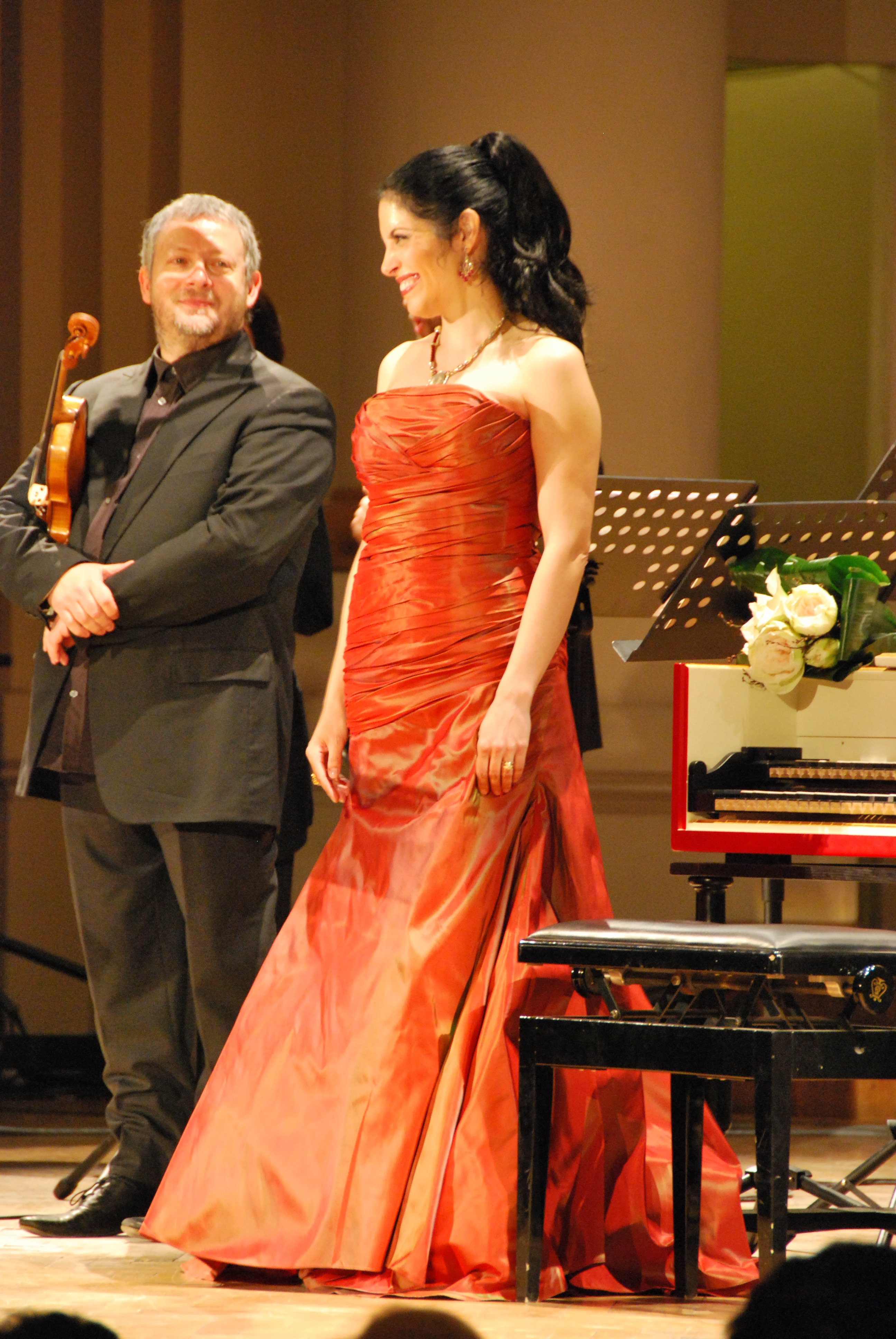 Vivica Genaux, Fabio Biondi - Misteria Paschalia Festival, Kraków Philharmonic, 05.04.2010.